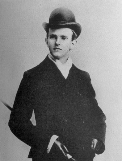 Later US president Calvin Coolidge in his time as a college student at Amherst College. Image was labeled by source as "As an Amherst Undergraduate"